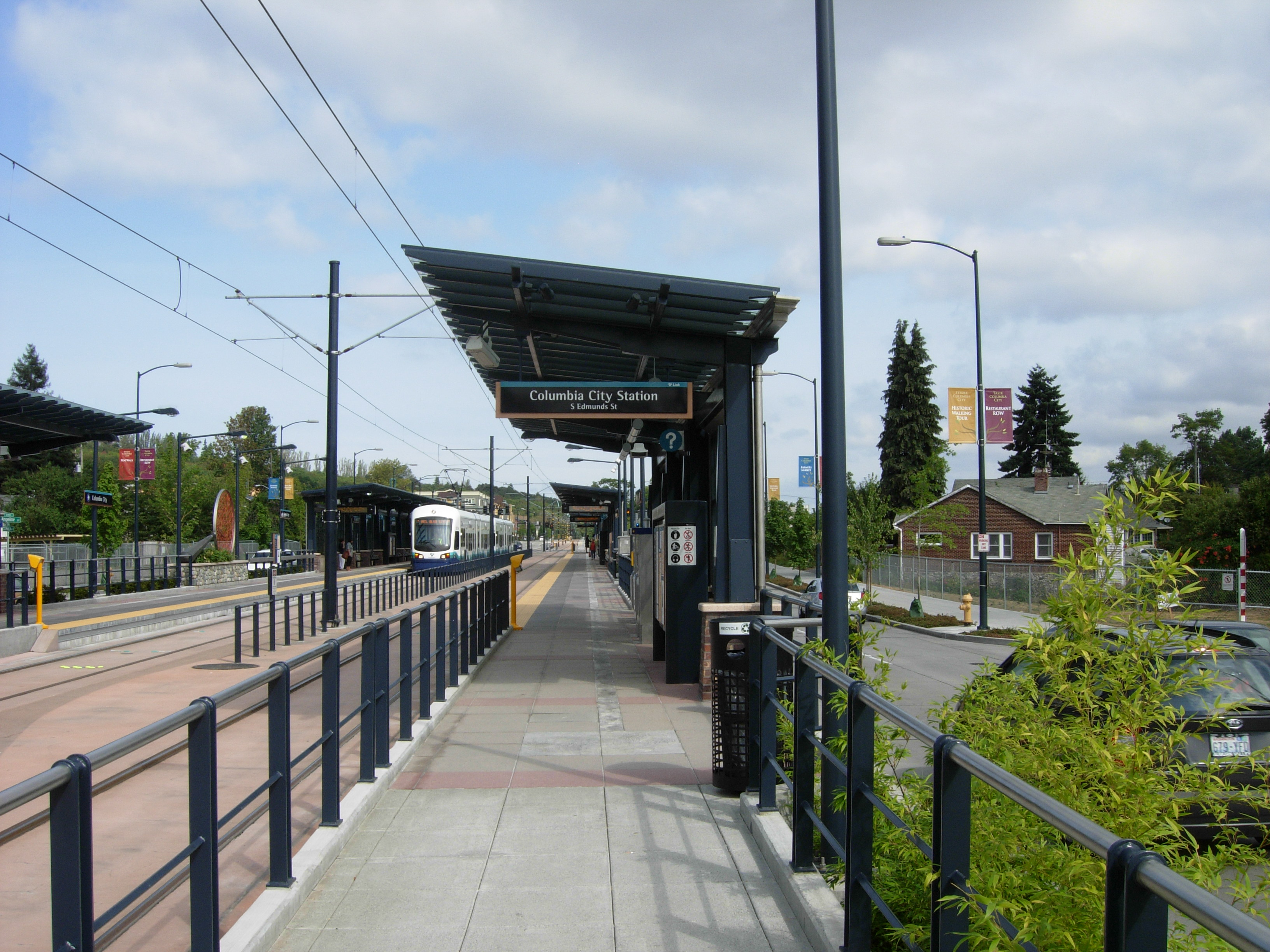 Columbia City Station. I took this photo myself 8-15-2009.